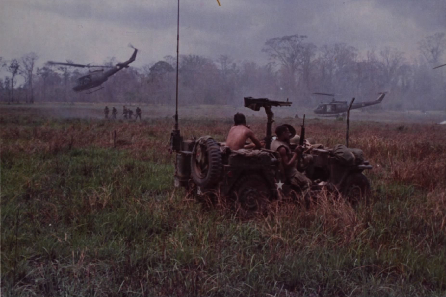 A ¼ ton jeep of Troop "F", 17th Cavalry Regiment, mounting a M-60 machine gun, secures the landing zone for a wave of UH-1D helicopters carrying members of Company "B", 4th Battalion, 31st Infantry, 196th Light Infantry Brigade, during Operation Junction City, Phase II, approximately 40 km north of Tay Ninh City in War Zone "C".